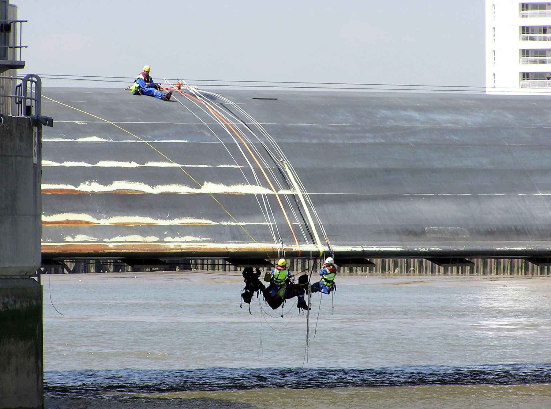 A Thames Barrier barrier in close-up, with maintenance workers